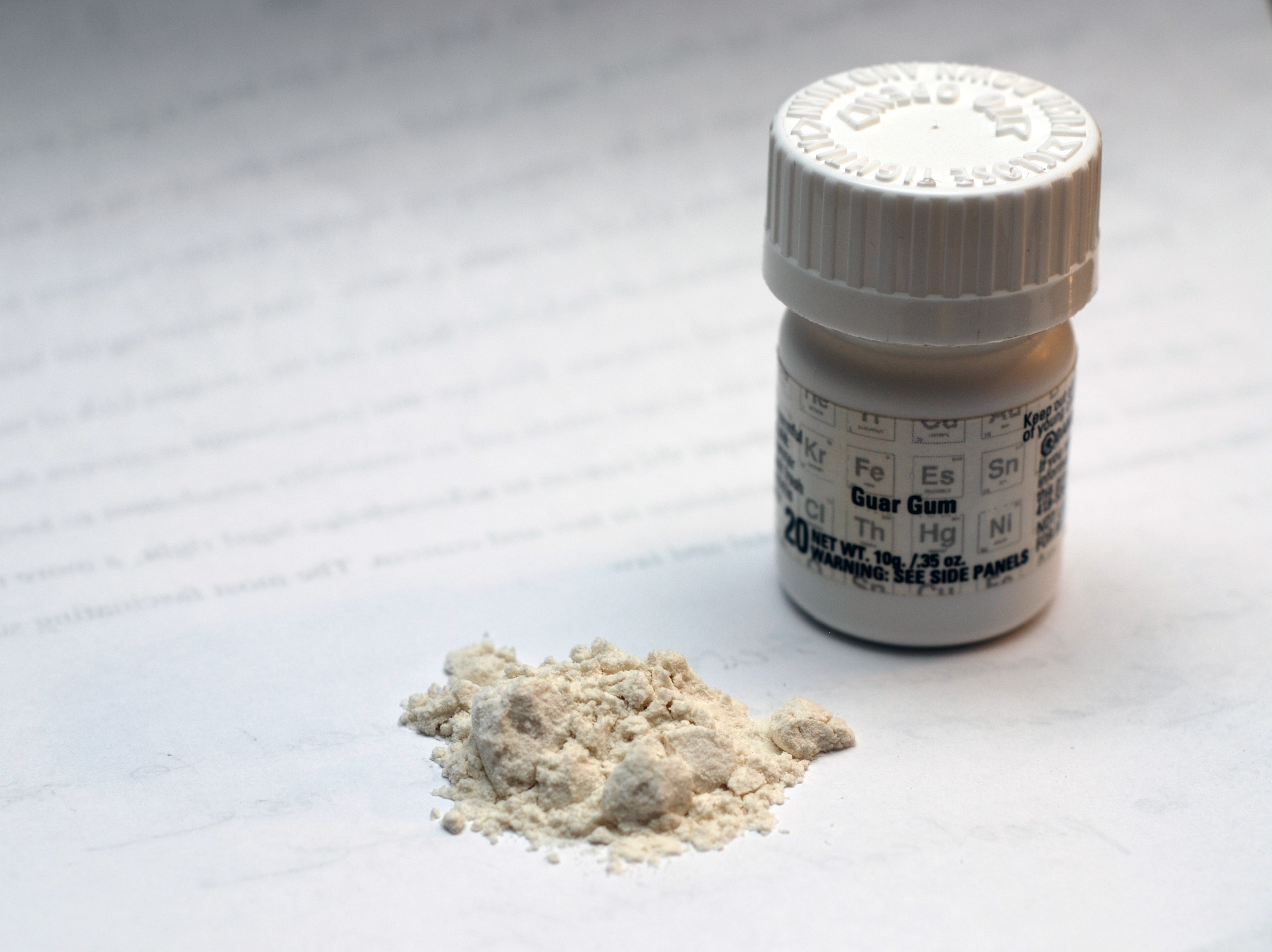 Lab grade guar gum